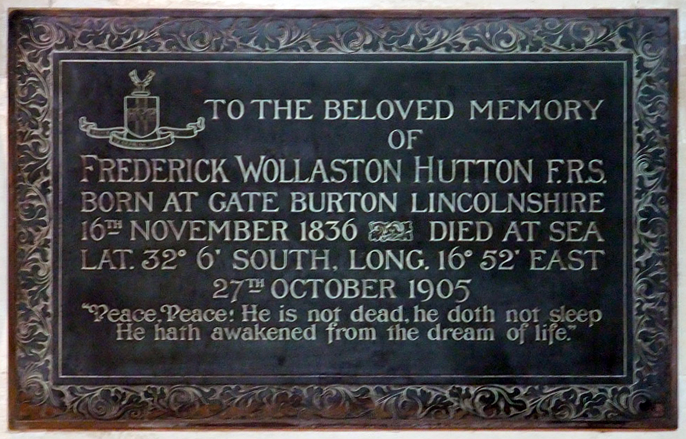 Plaque commemorating Frederick Wollaston Hutton, Christchurch Cathedral, New Zealand